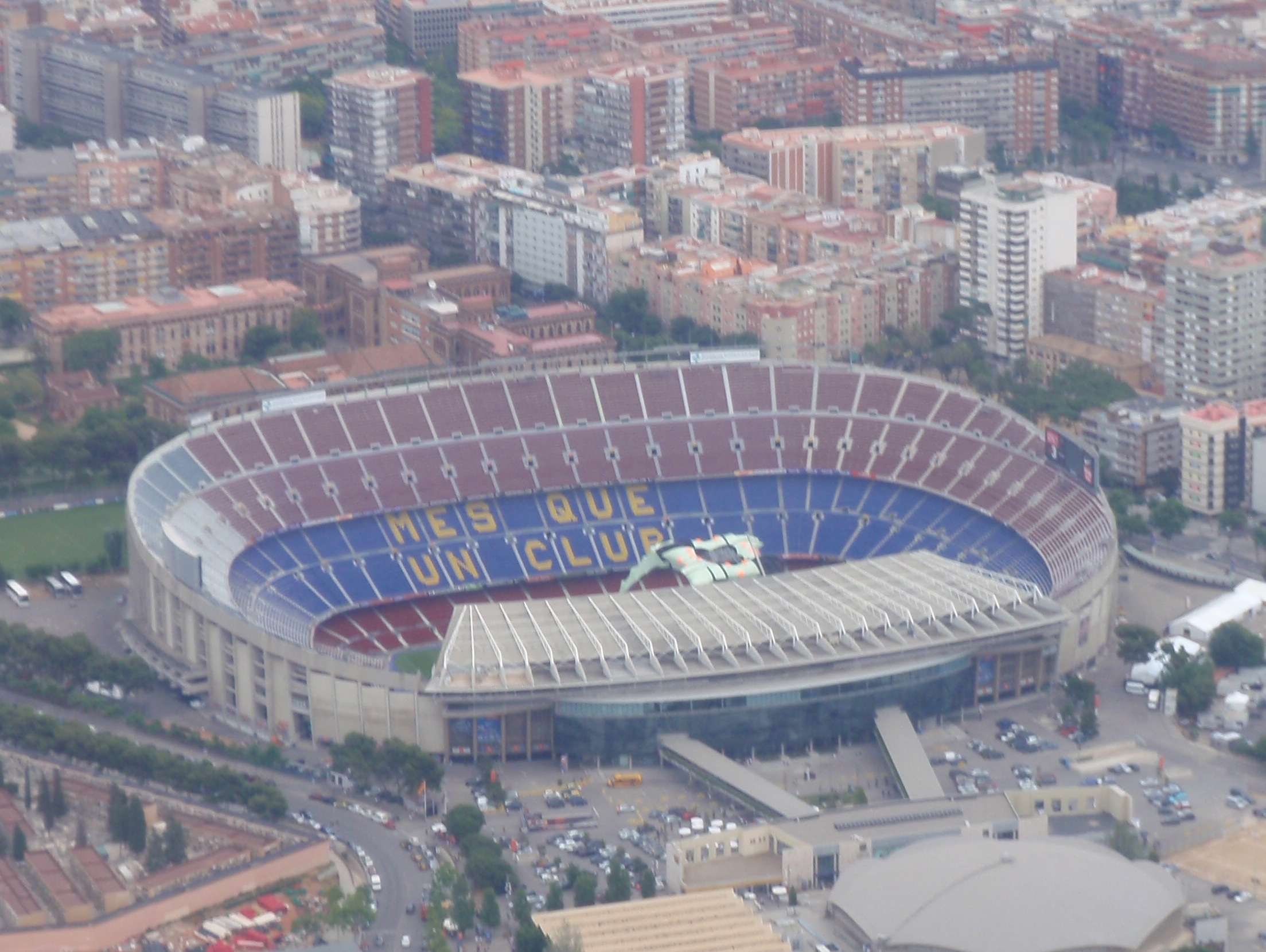 The Camp Nou is the biggest stadium in Europe and offers seats to 98,787 visitors.